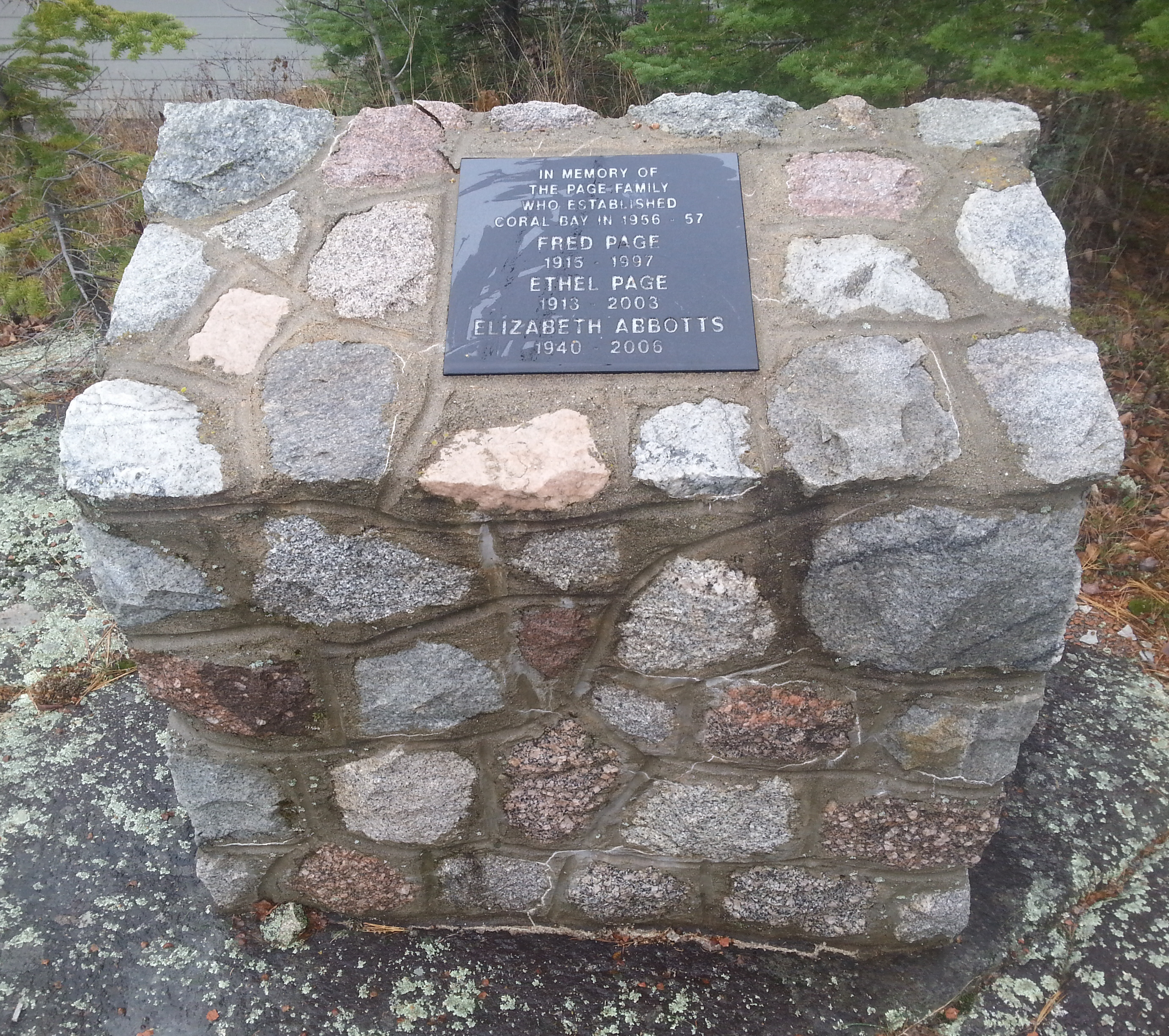 Fred Page and family memorial cairn at Coral Bay, Shuniah